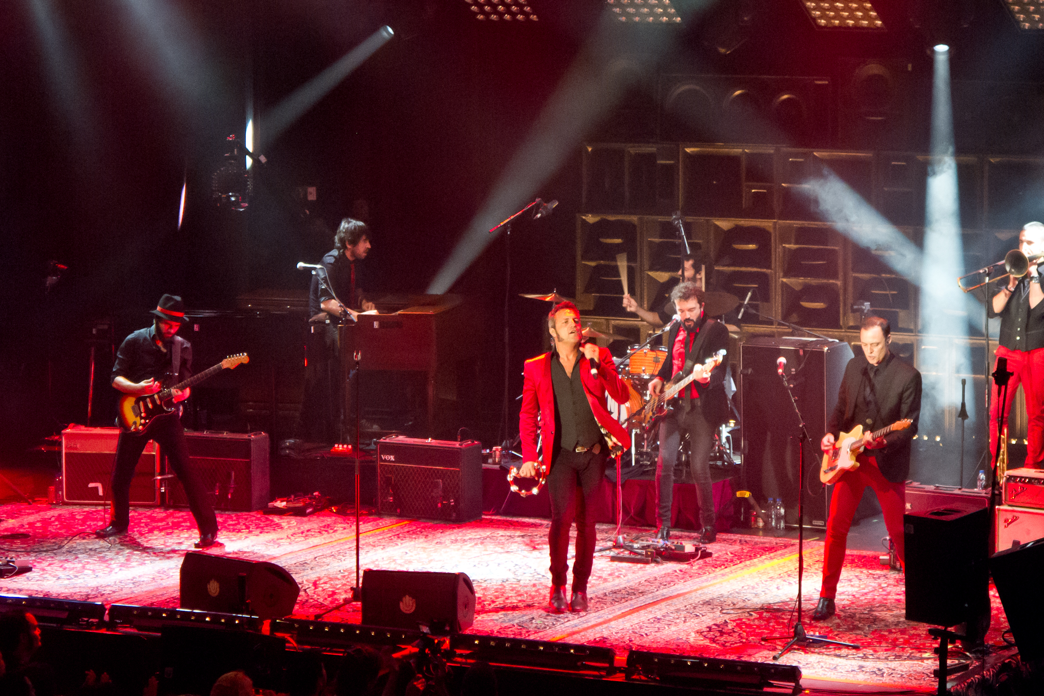 Spanish rock band M Clan at one of their two concerts for their 20th anniversary, at the Teatro Circo Price, Madrid, Spain.